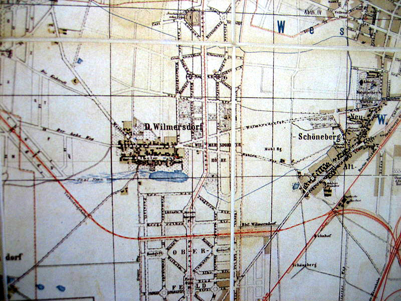 Old village of Deutsch Wilmersdorf